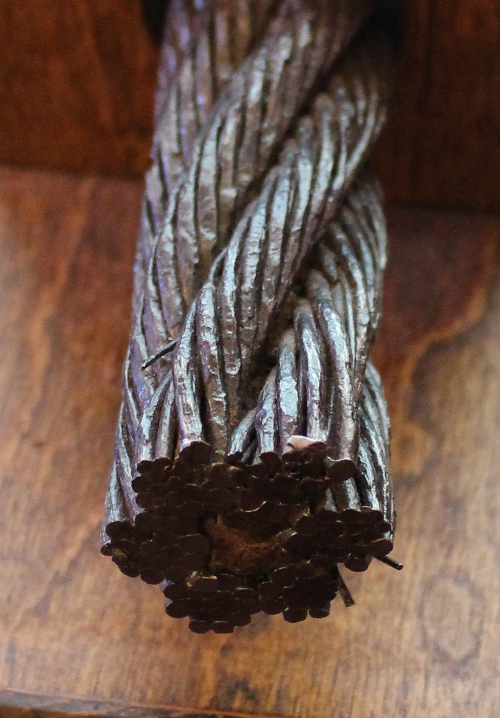 Section of a rail and cable from a San Francisco cable car, ca. 1909 - detail view. Photo of an exhibit at the 2015 San Francisco History Expo